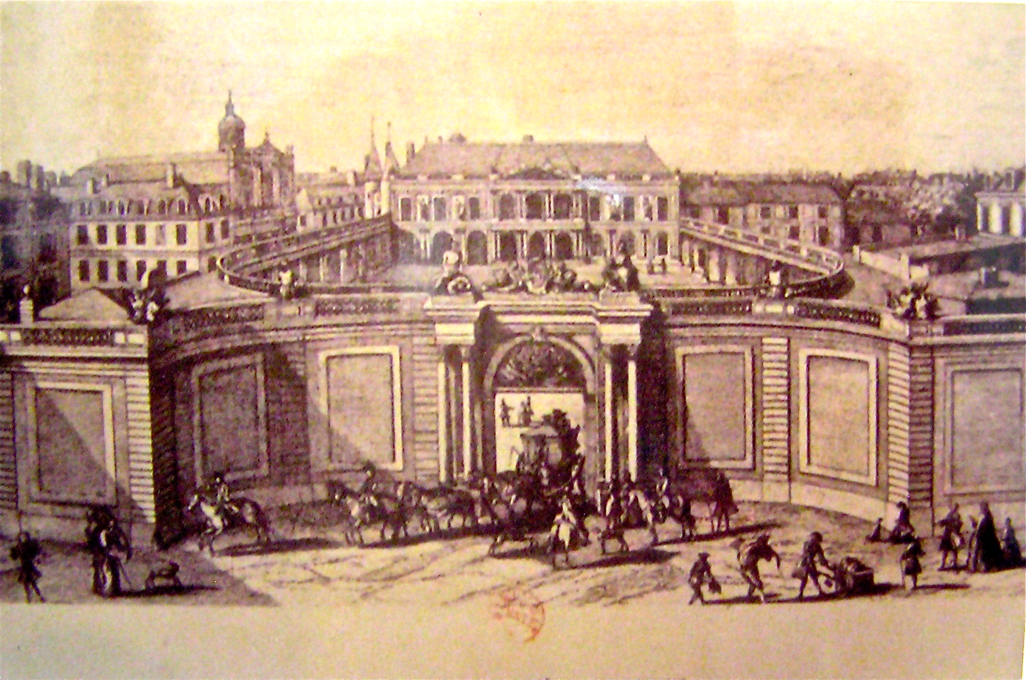 Palais de Soubise, Venue of Saint-Georges' Orchestra